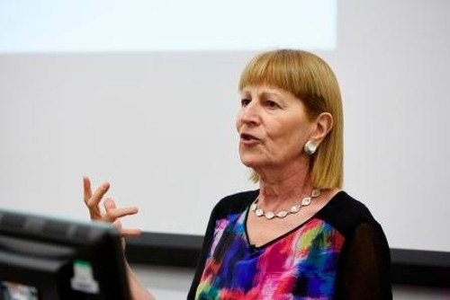 Judy Wajcman giving a talk at the University of Leeds